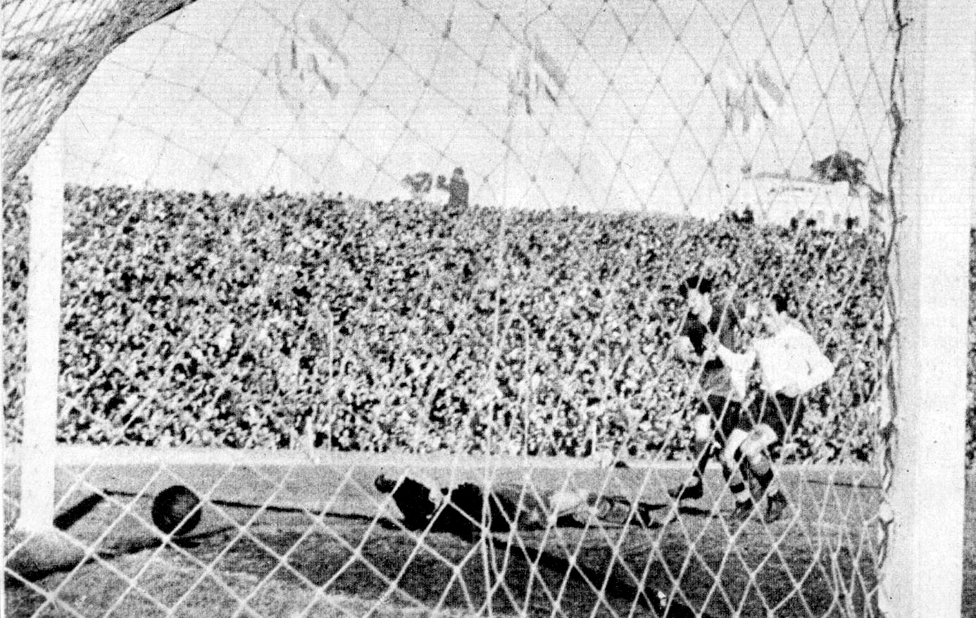 Forward René Pontoni scores the second goal of San Lorenzo de Almagro v. Spain national team in a friendly match played at Madrid. San Lorenzo finally thrashed Spain by 6-1.